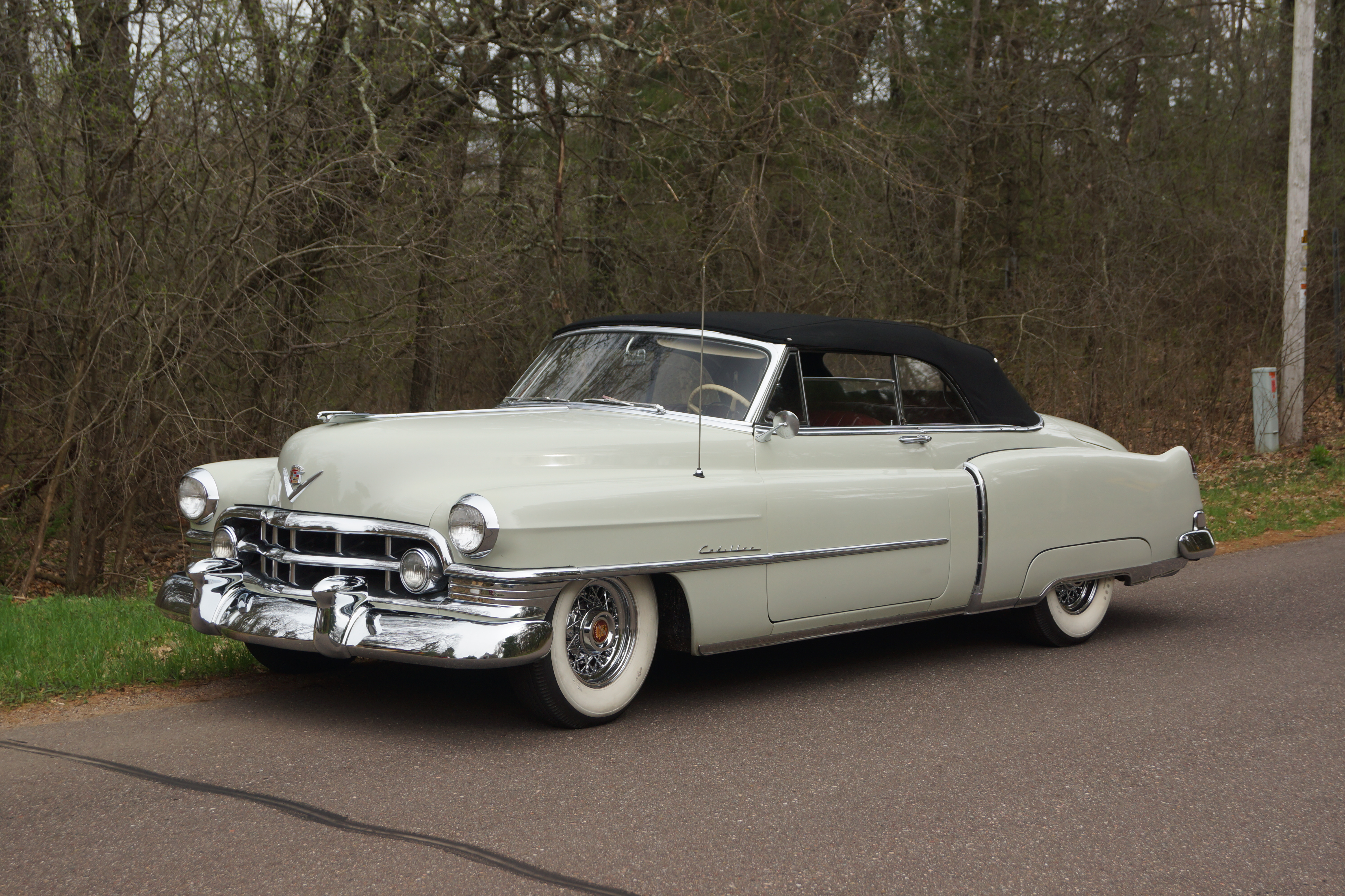 Francis invited me to ride along on the Upper Midwest Region Classic Car Club of America's Spring Garage Tour. Unfortunately, Francis was unable to make it, so I went and took pictures for him. The tour started in Hastings, Minnesota and ventured east into Wisconsin. The day started out sunny, but got cloudier as the day progressed. Still a nice day and good for avoiding shadows on outdoor shots. Even though I was busy taking pictures, I had a chance to talk to a lot of nice people and see some very amazing cars. Taking pictures on a garage tour is always a little frustrating. You get to see these beautiful cars, but usually a garage setting is too tight to get nice pictures. The route was beautiful, but I had a few missed turns primarily because Wisconsin's road marking methods are a little different than what I am used to in Minnesota. It was a great day and I would like to shout out a big "THANK YOU!" to the hosts that opened up their garages and to event coordinators that put the whole thing together. Click here for more car pictures at my Flickr site. Or here for my Car Crazy Tumblr site. Or on Twitter @DVS1mn.